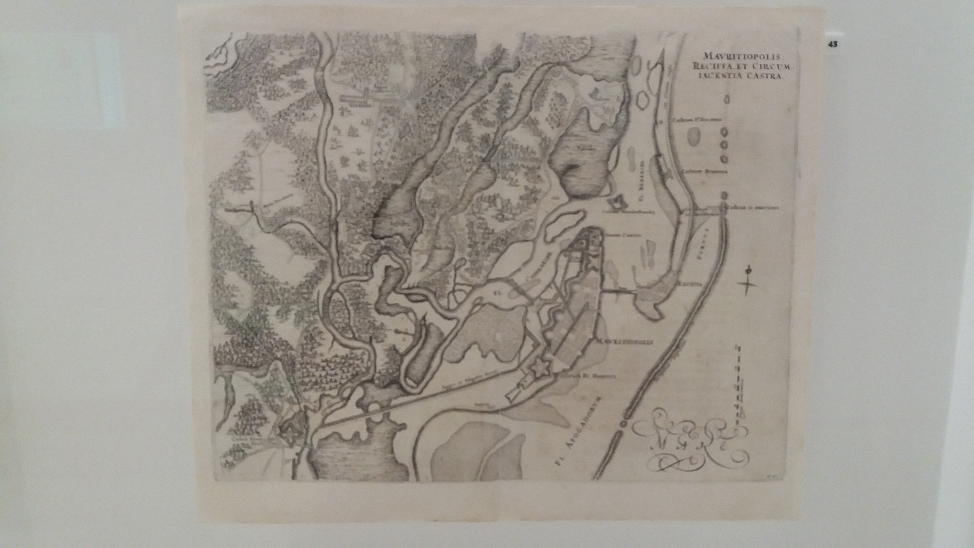 Image from the Frans Post Collection on display at Itaú Cultural, São Paulo, Brazil